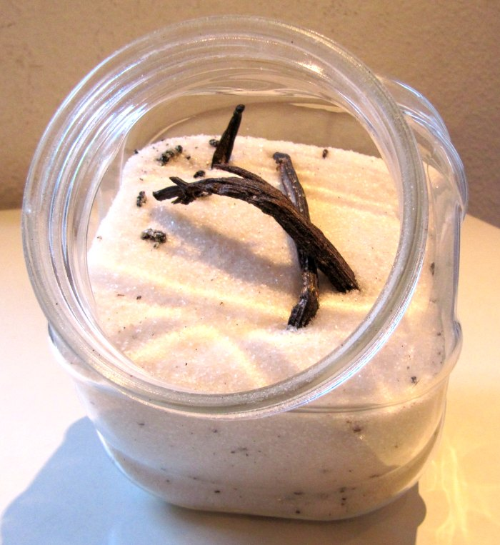 real vanilla sugar